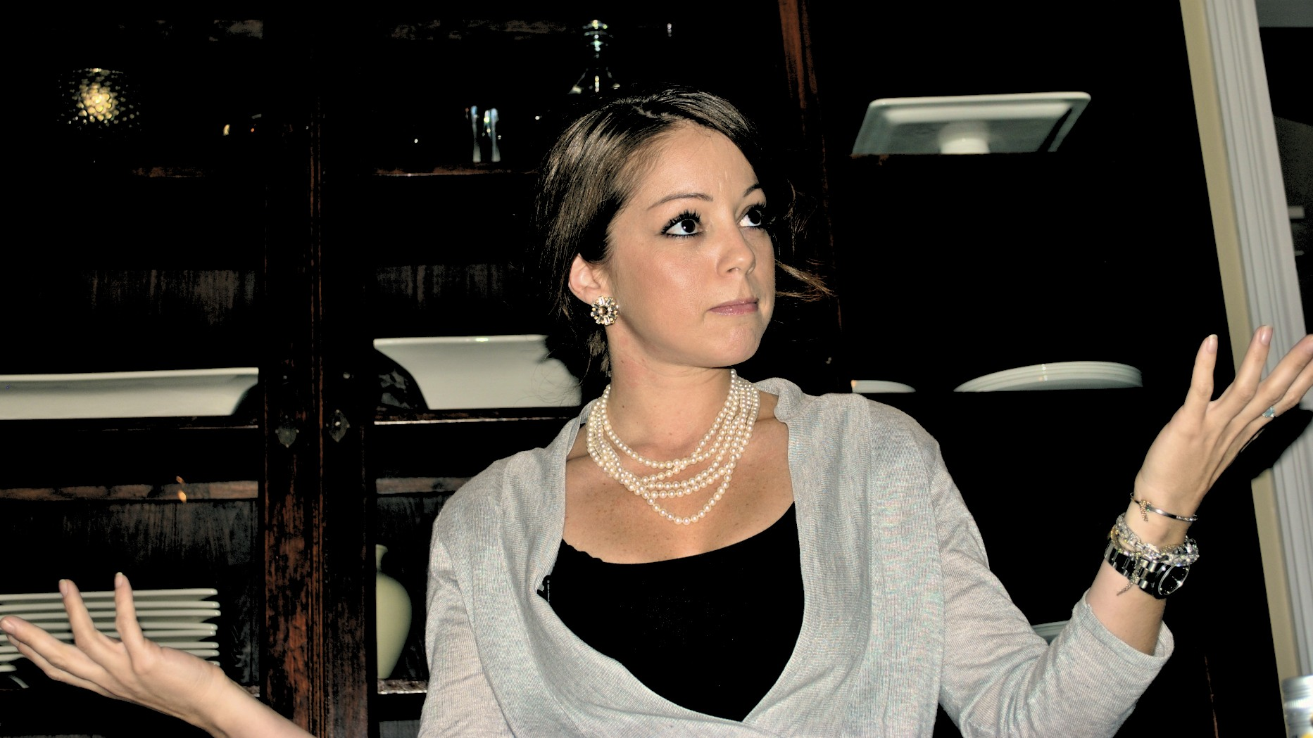 American chef Marcela Valladolid, @ChefMarcela, at Chicago Sauza Ladies Night In, #chisauzaladiesntin, recipes made with Sauza Tequila.